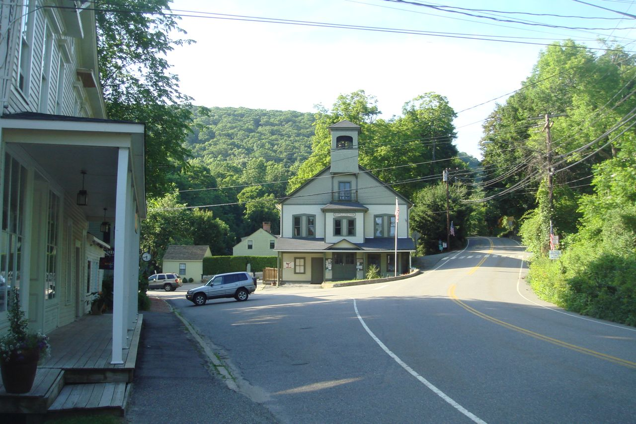 The village center of New Preston, Connecticut, looking north on Route 45 (East Shore Road} at intersection of New Preston Hill Road